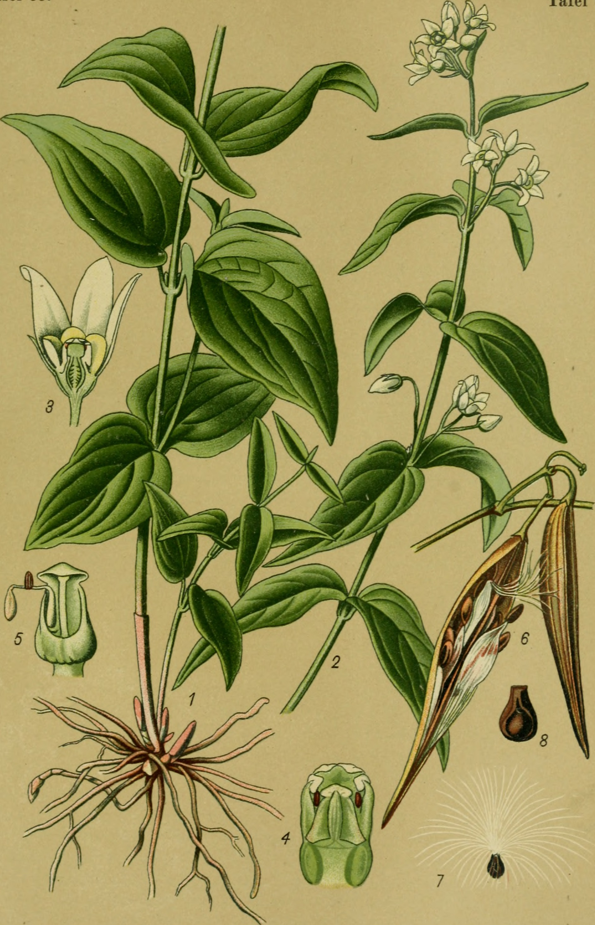 Title: Die Giftpflanzen Deutschlands Year: 1910 (1910s) Authors: Esser, Peter, 1859- Subjects: Poisonous plants Publisher: Braunschweig, F. Vieweg Text Appearing Before Image: Tafel 88. Tafel 88. Text Appearing After Image: Gemeine Schwalbenwurz, l/incetoxicum ofßcina/e Moenoh. 1, 2 Pflanze. 3 Blüte im Längssclinitt. 4 Fruchtknoten mit Staubfadenröhre. 5 Staubblatt und Pollinarien mit Klebdrüse. 6 Frucht, geschlossen und aufgesprungen. 7, 8 Same. 3, 4, 5, 7, 8 vergr.